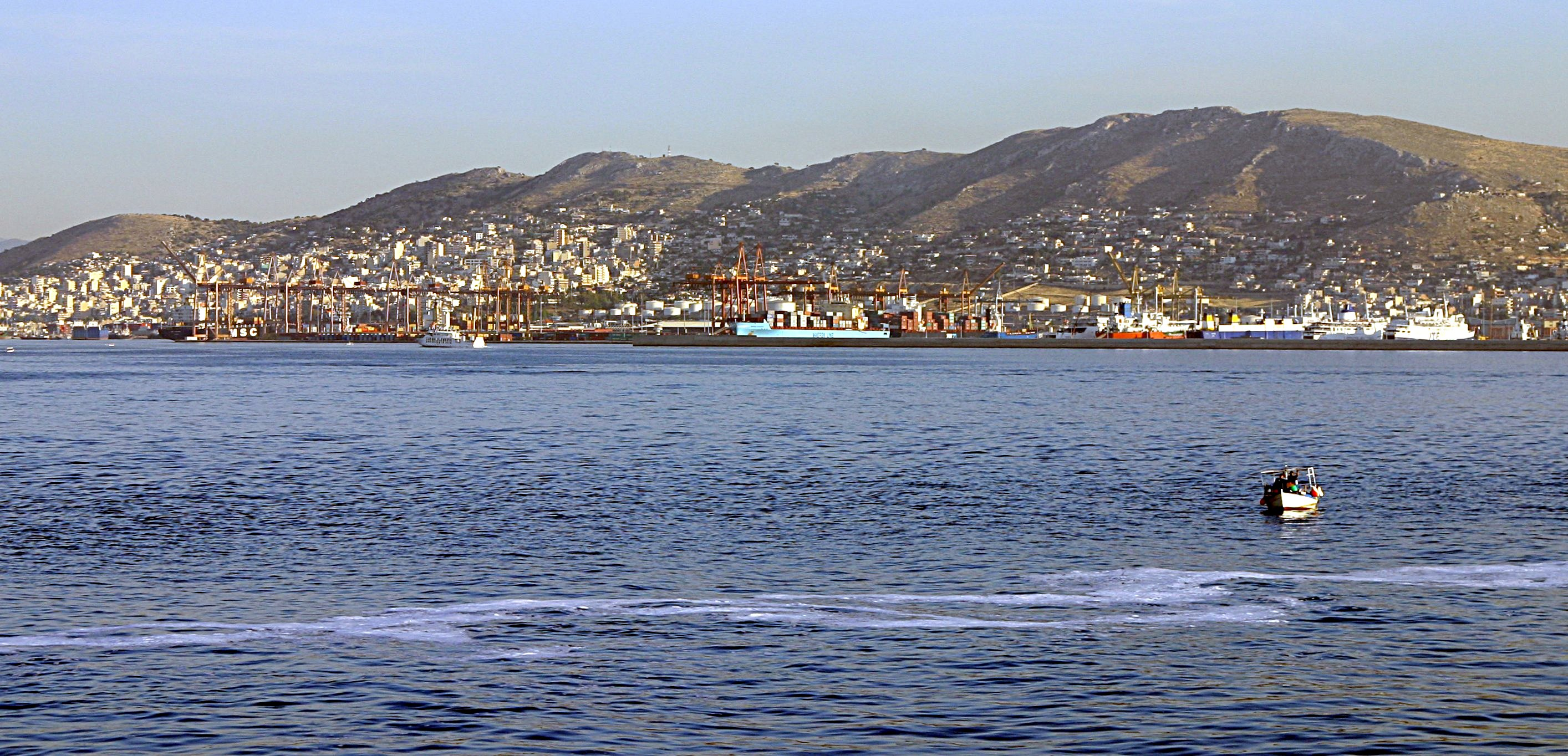 Panoramic view of Perama, a suburb of Piraeus